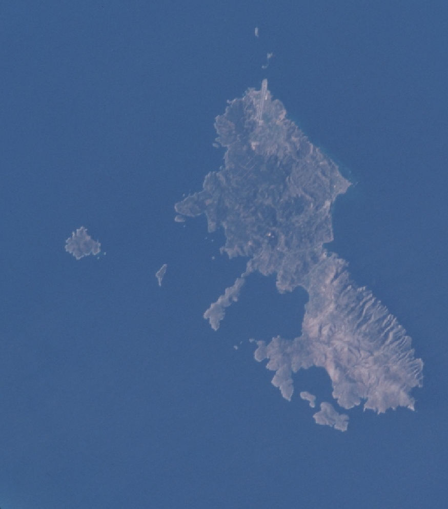 Greek Island Skyros from space